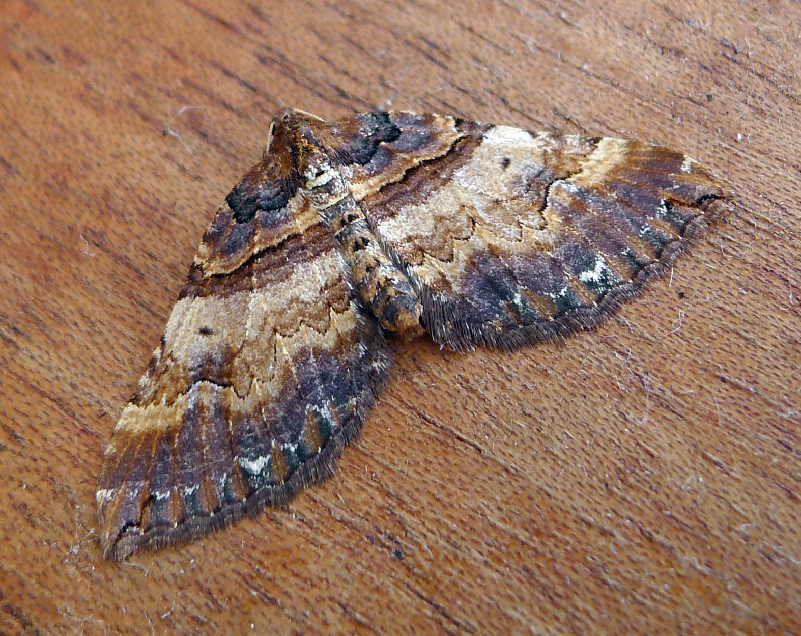 So 7347. Cradley Malvern Worcs. 1 seen